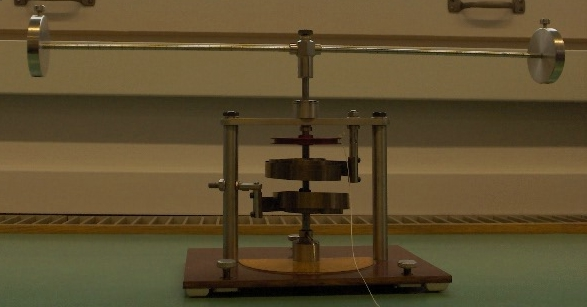 A torsion pendulum